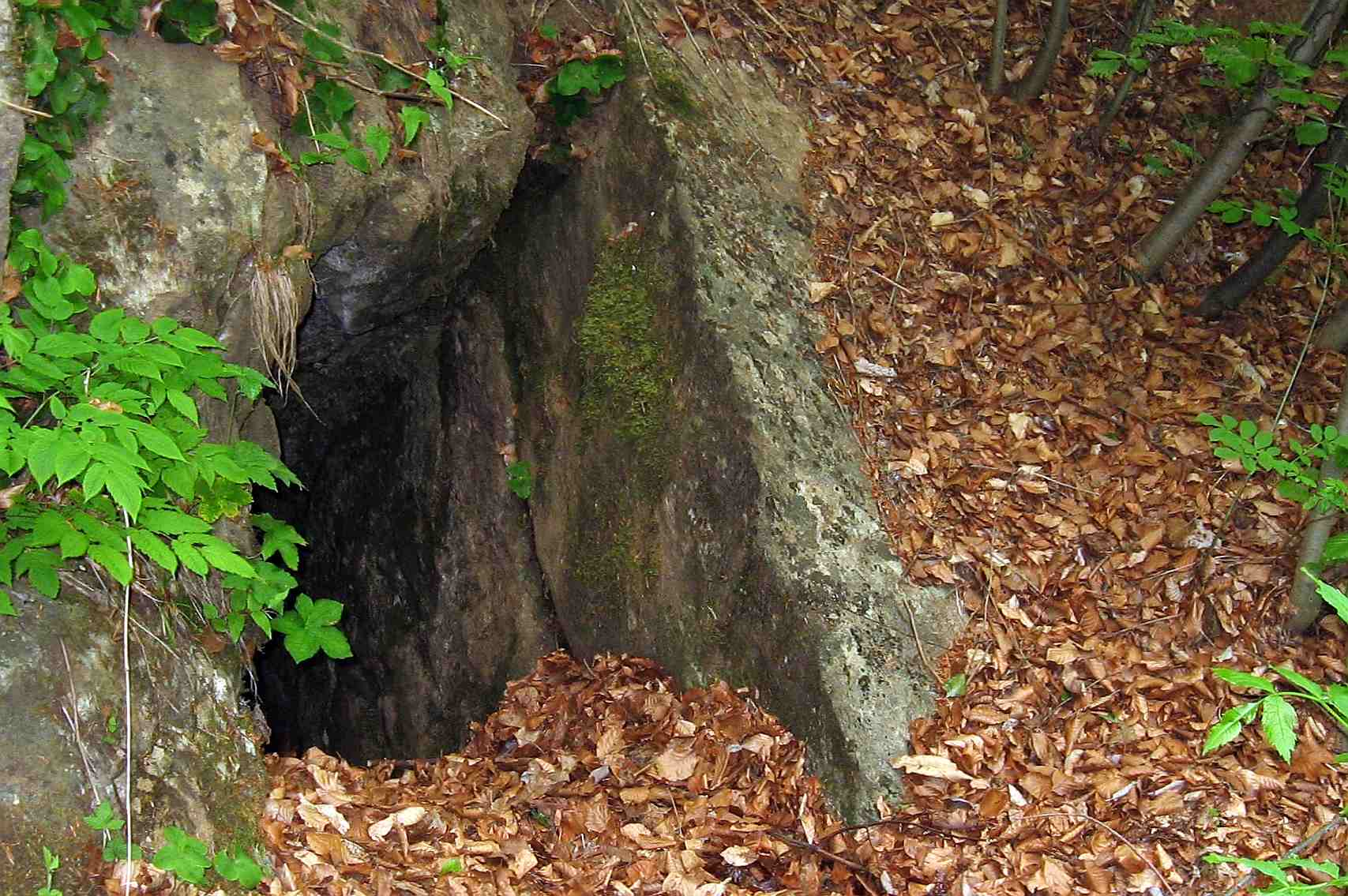 Grotte di Pugnetto (Mezzenile, TO, Italy): entrance to a secondary cave